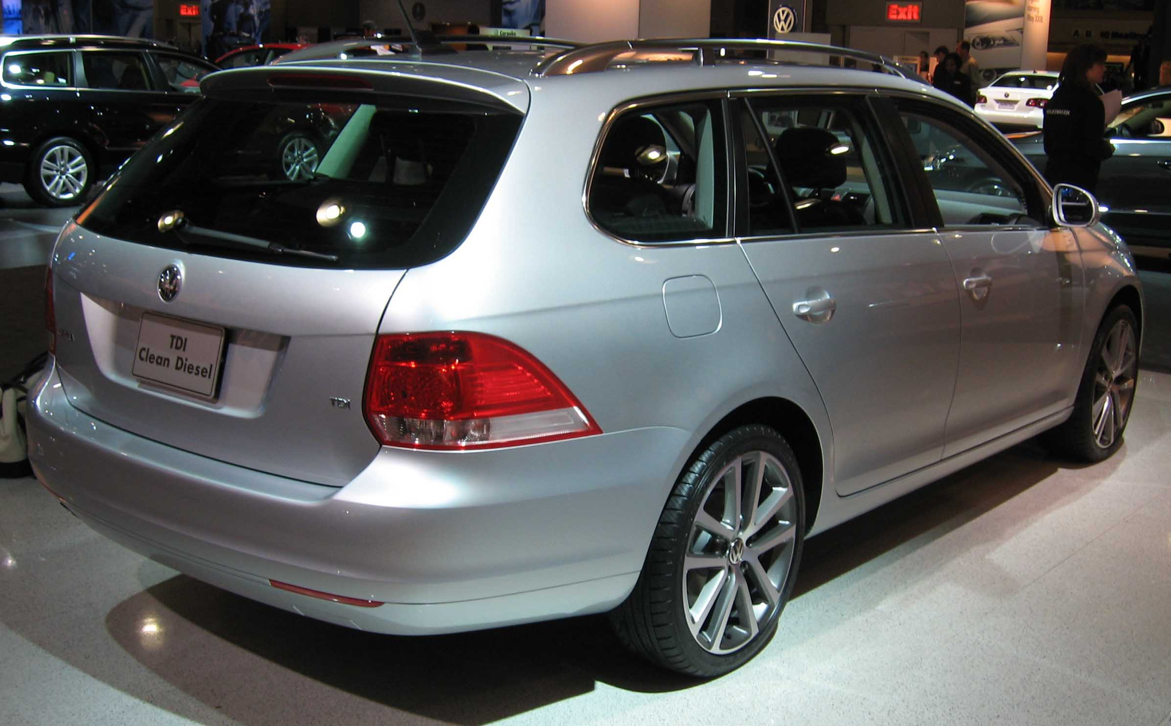 2009 Volkswagen Jetta photographed at the 2008 New York Auto Show.